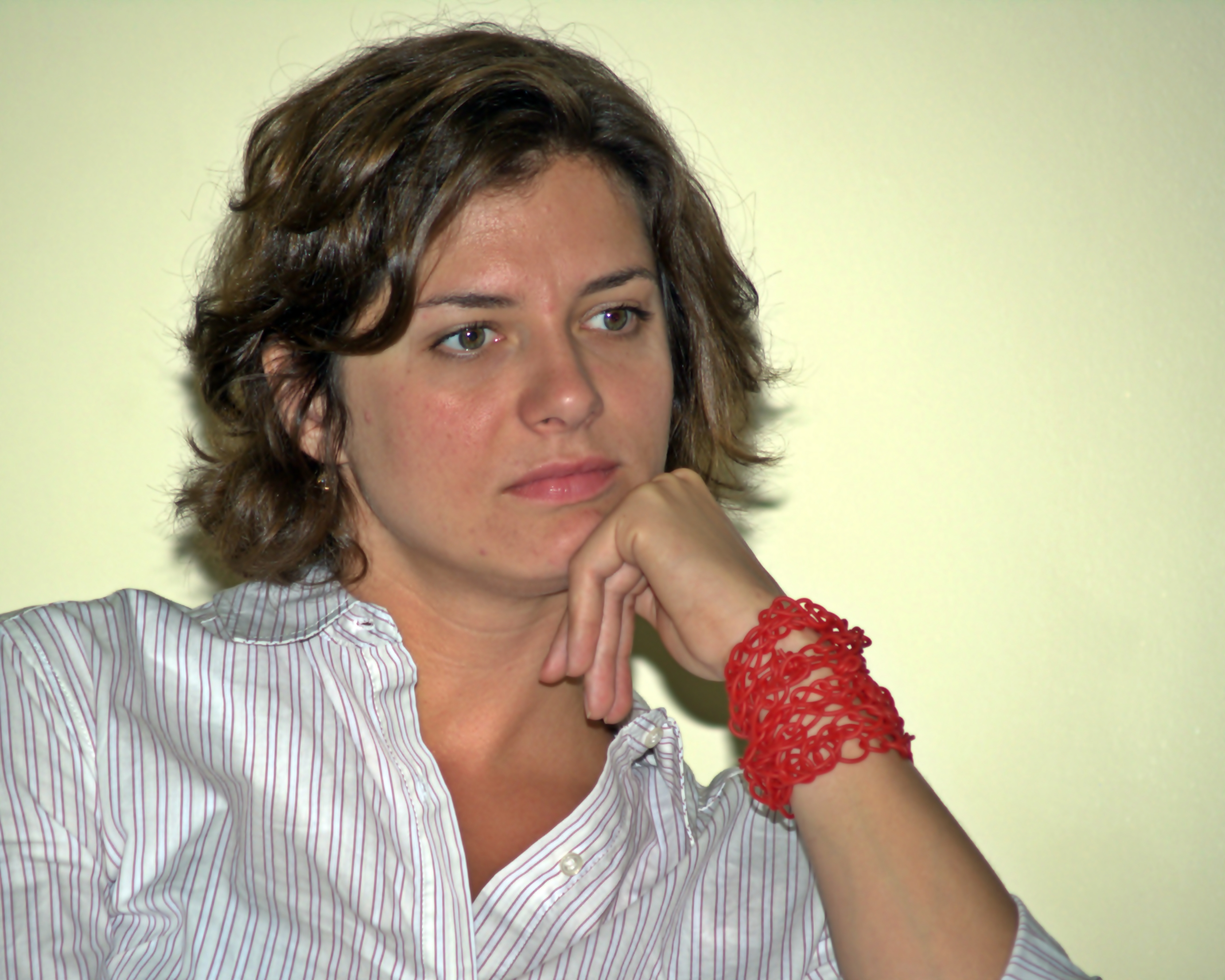 Ivy Pochoda at the 2010 Brooklyn Book Festival.